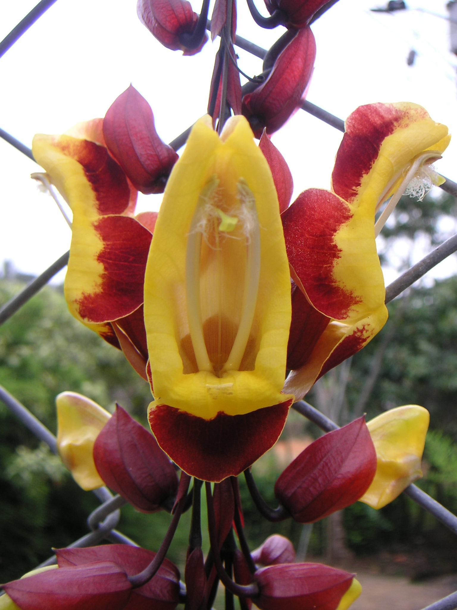 Thunbergia mysorensis, Acanthaceae, Cali / Kolumbien